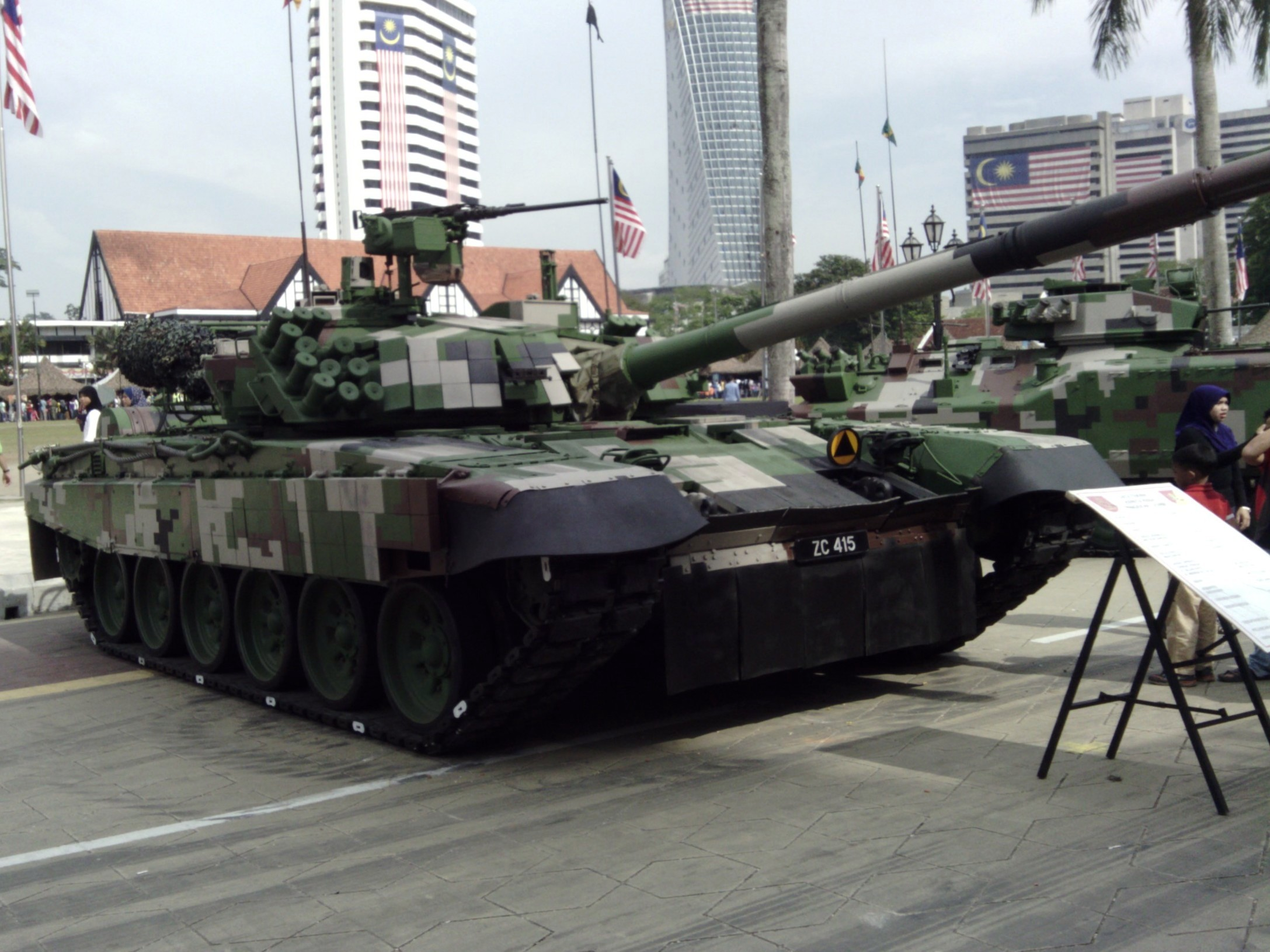 PT-91M Pendekar on new digital camouflage.